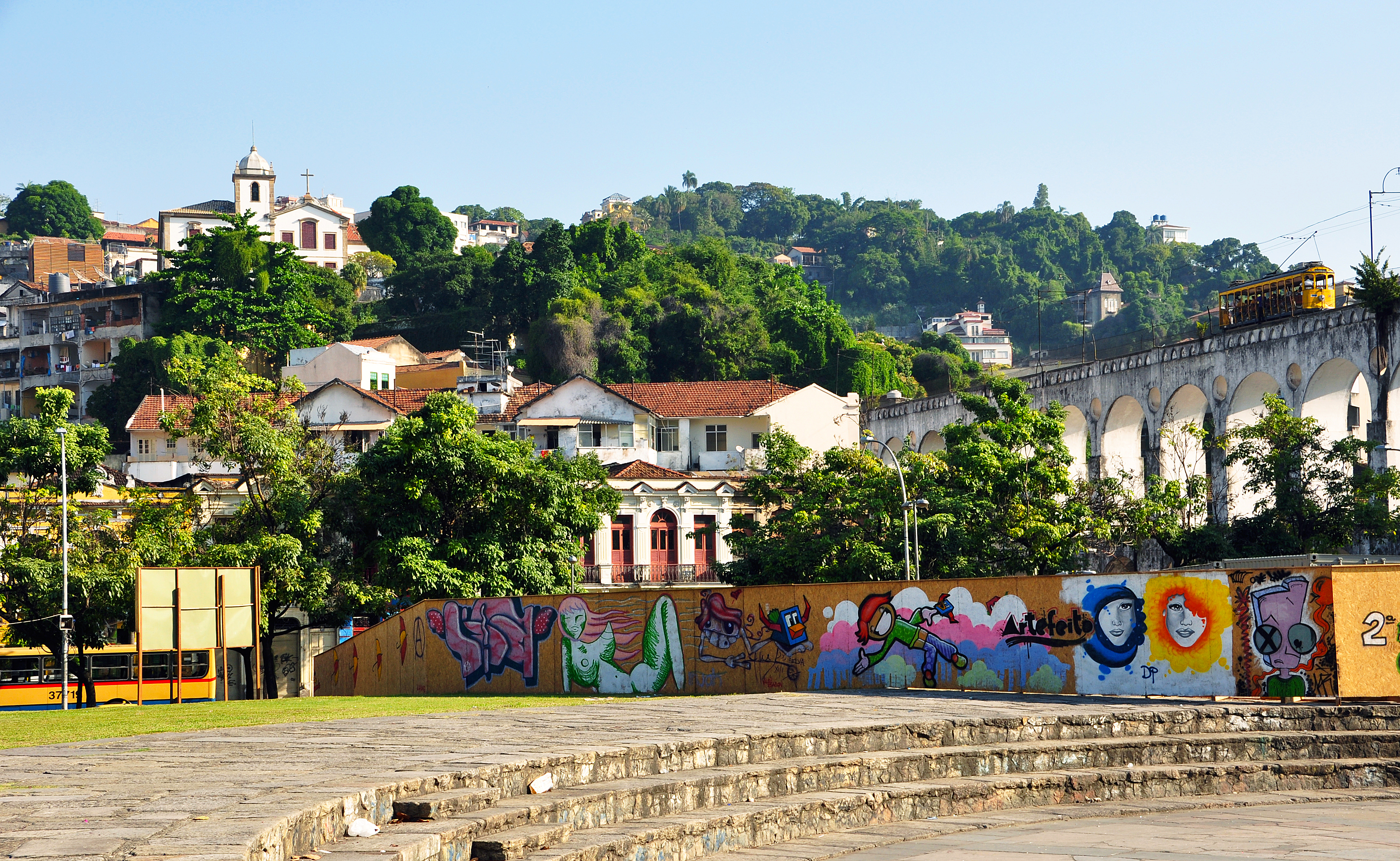 santa teresa aqueduct rio de janeiro 2010